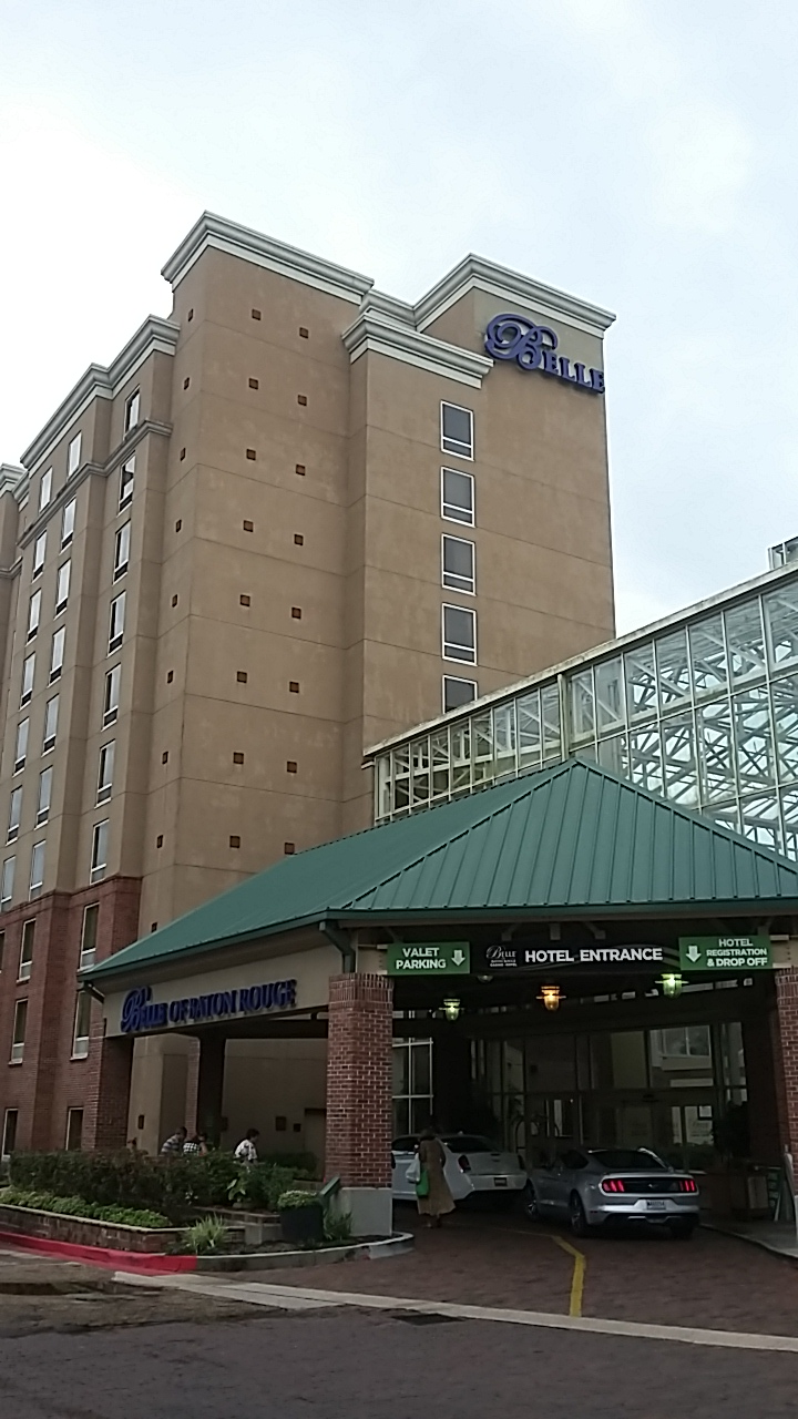 The entance of the Belle of Baton Rouge hotel